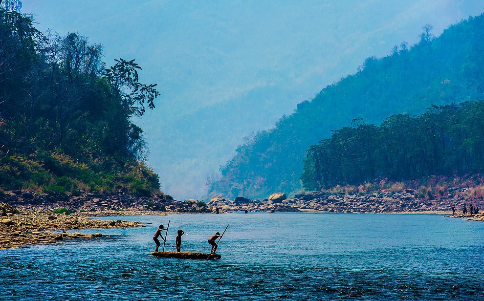 river hills boat sport